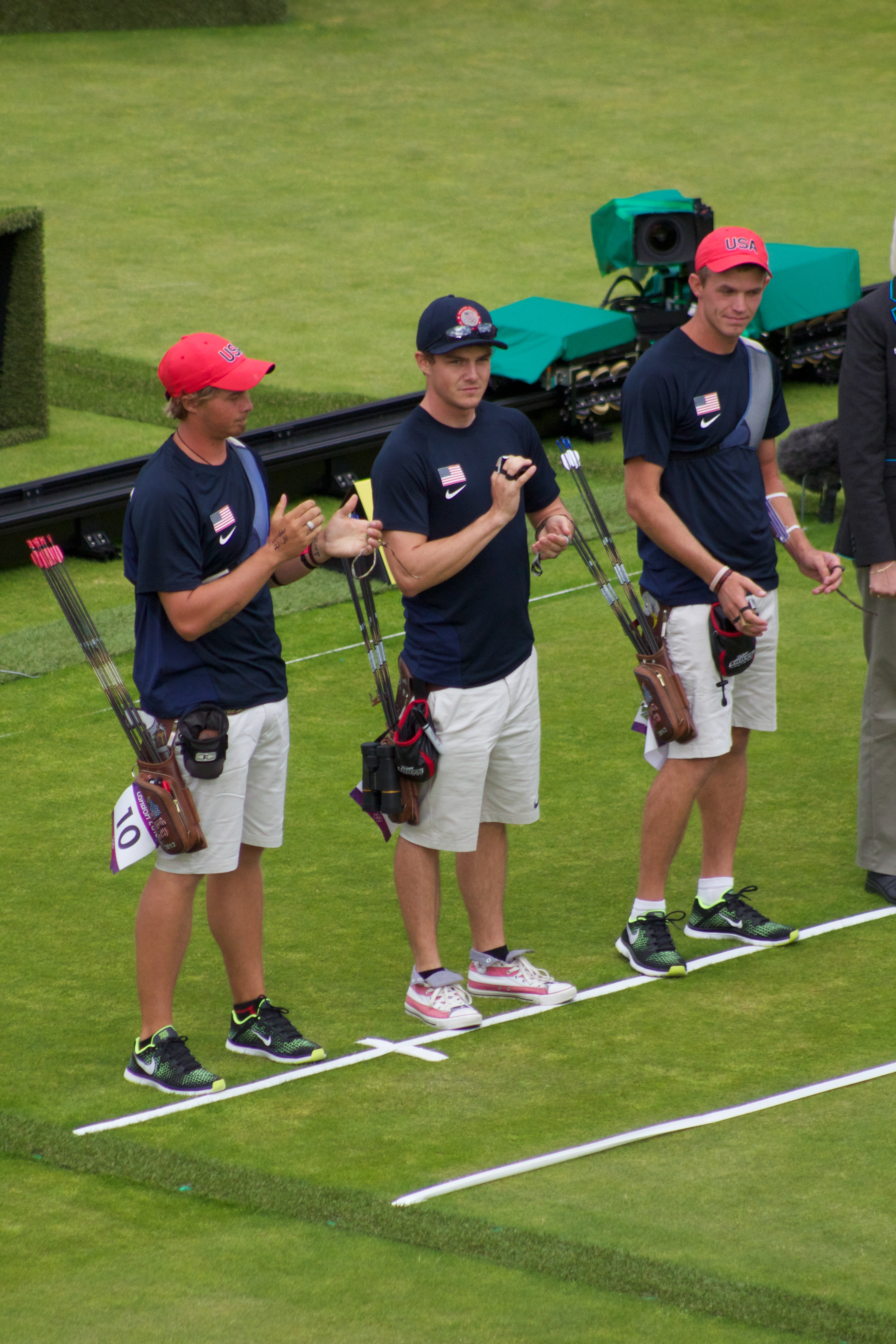 Brady Ellison, Jake Kaminski, Jacob Wukie during Men's team competition in Archery at the 2012 Summer Olympics in London